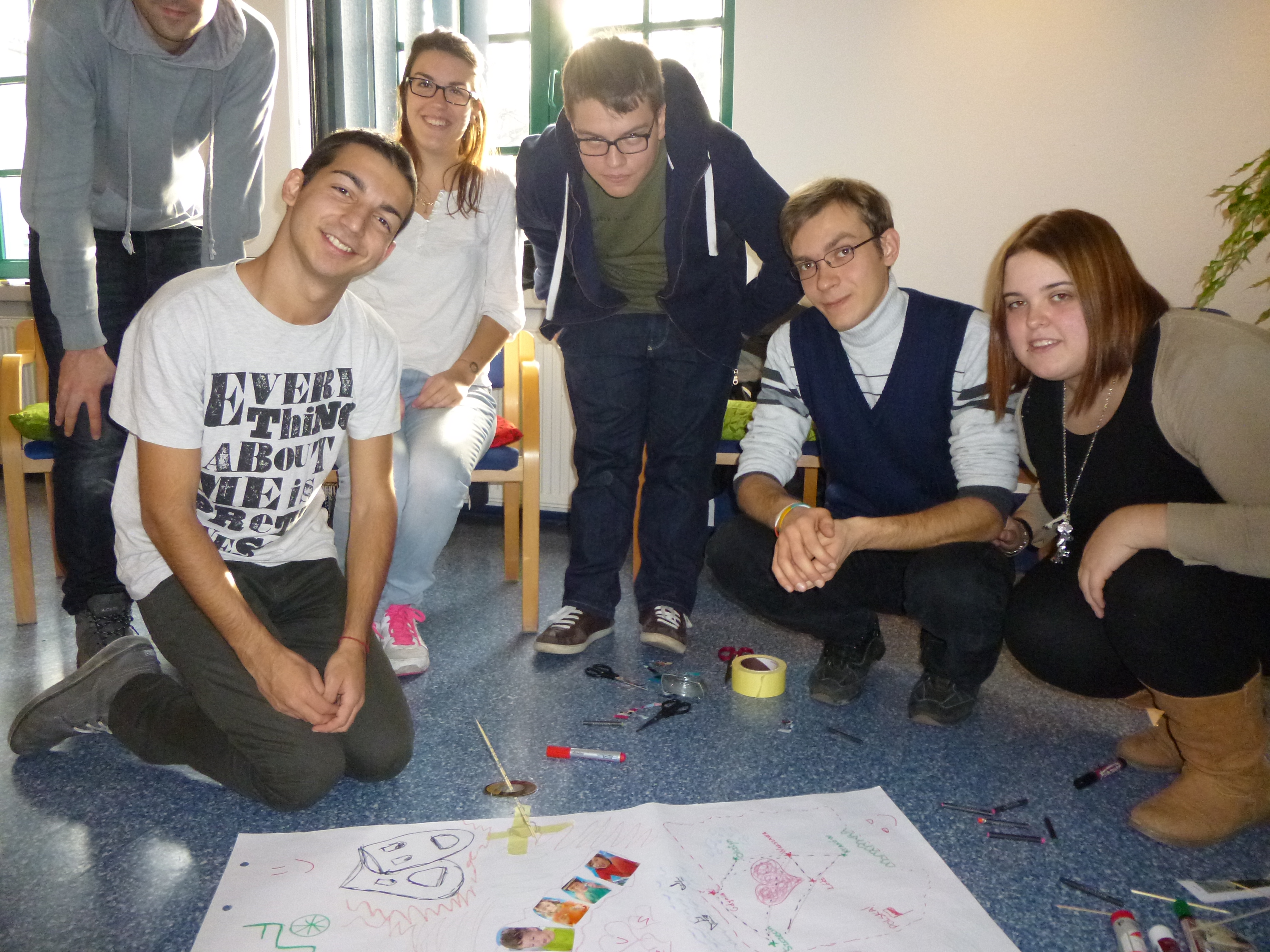 A group of EVS volunteers working on a common poster.